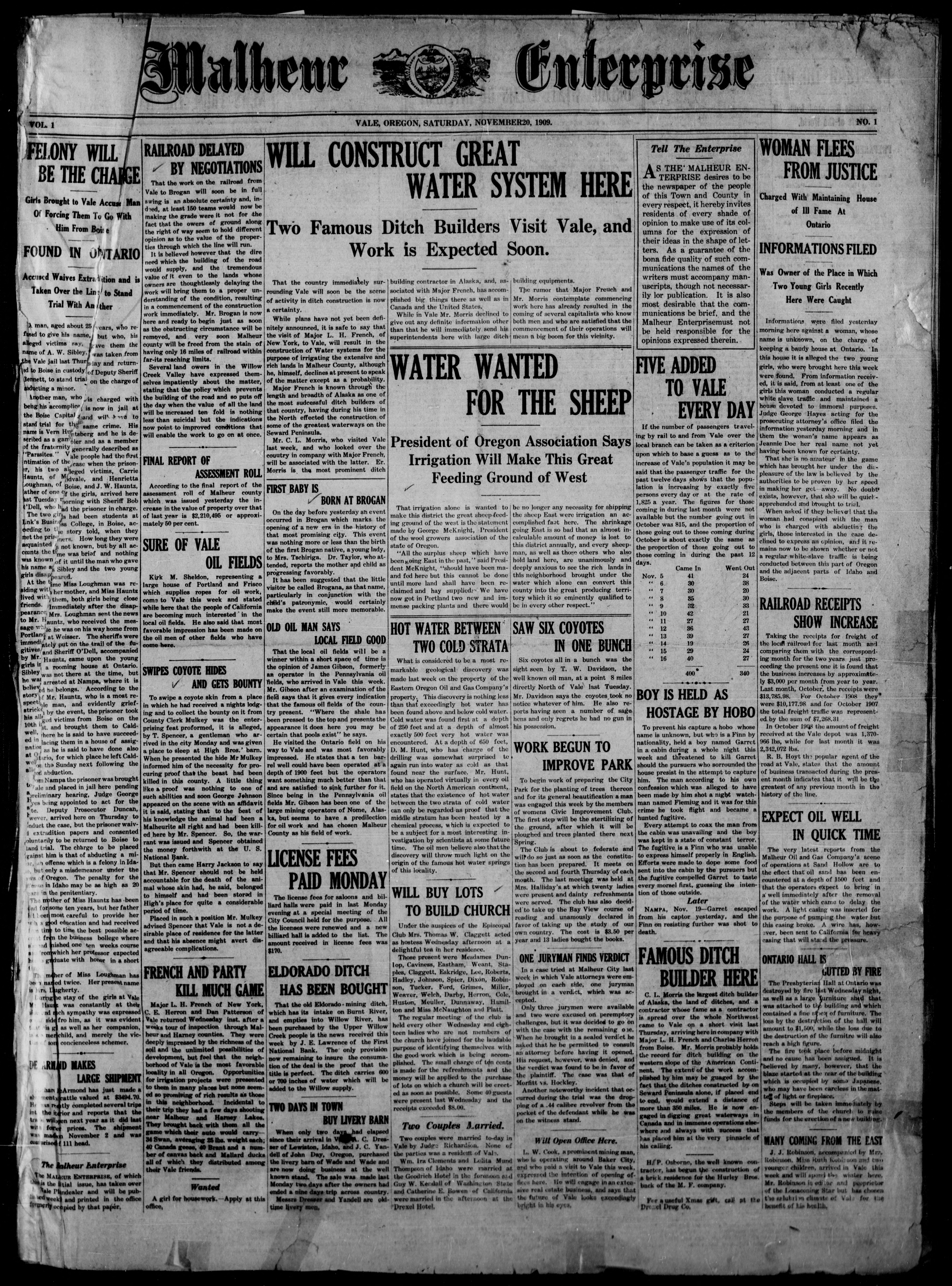 Malheur Enterprise , page 1, 1909-11-20 (Vol. 1, No. 1)